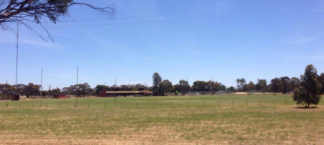 The Bunnaloo Recreation Reserve (feature the Oval and Community Centre and Cricket Nets in the background) taken from the South Eastern end. Home of the Bunnaloo Cricket Team and former Bunnaloo Football Club.